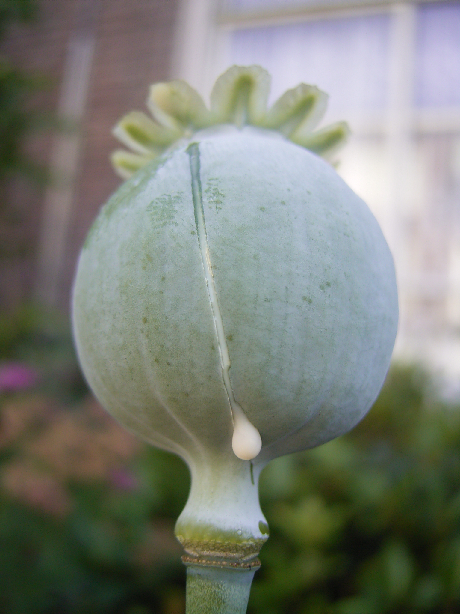 This photo shows a seedhead of Opium Poppy Papaver somniferum with white latex